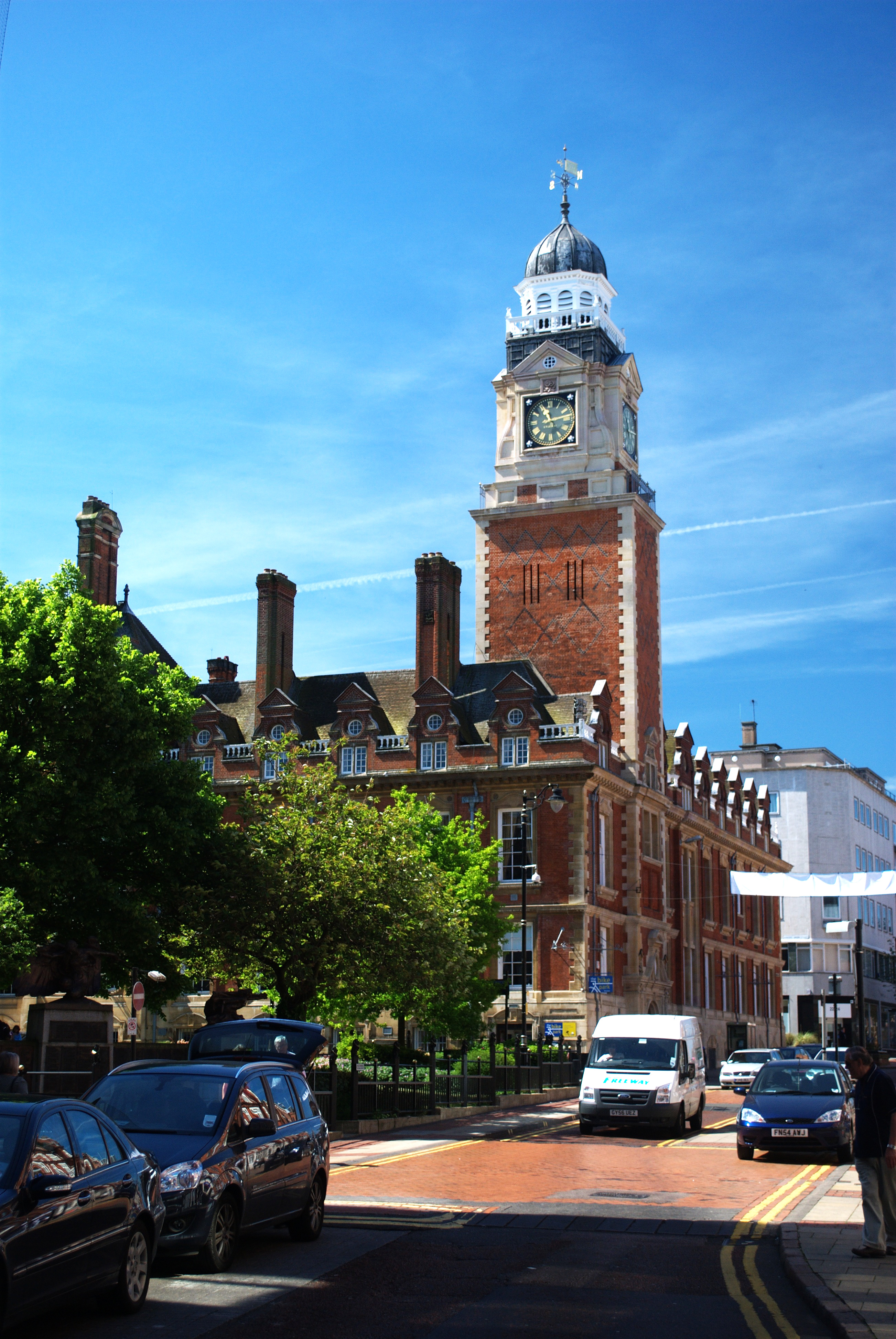 Tower of Leicester Town Hall